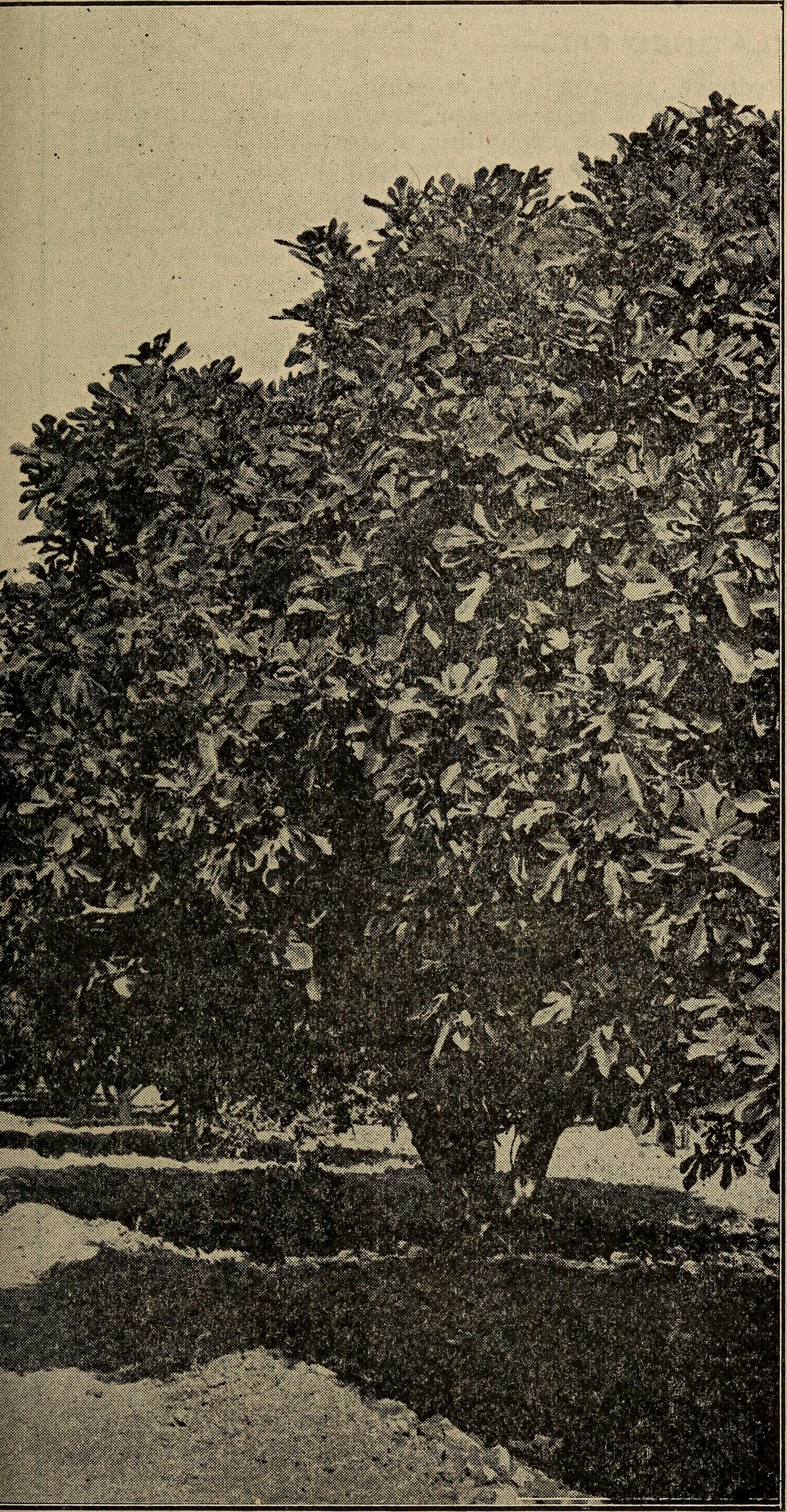 Title: The J.C. Forkner fig-gardens recipes; how to serve figs in the home Year: 1919 (1910s) Authors: Forkner, J. C. (Jesse Clayton) Subjects: Cooking (Figs) Publisher: Fresno, Calif. (Crown Printing and Engraving Co.) Text Appearing Before Image: One of the Wonder Fig Gardens —Page Forty THE J. C. FORKNER FIG GARDENS RECIPES Text Appearing After Image: of Fresno County, California Page Forty-one— THE J. G. FORKNER FIG GARDENS RECIPES GELATINED FIGS— Prepare the figs by stewing-. Chop very fine.Have ready a half-box of gelatine; put this overthe lire in a cup of boiling water, add the sweet-ened fig syrup, stir until the gelatine is thoroughlydissolved, take from the fire, add a wineglassfulof sherry and stir in the minced figs. Turn intoa mould wet with cold water to form. EASY-ENOUGH JAM— Six pounds of purple figs (fresh), peeled and cutin half; two pounds of sugar. Cook until thickand seal hot. JUBILEE FIG JAM— Select ripe figs, remove all stems, treat themwith a scalding soda solution and rinse thoroughlyin clear, cold water. Cook in quantities not largerthan three pounds at one time. Allow one andone-half pounds of sugar to each three pounds offigs. Add barely enough water to start the cook-ing (about one-half cupful), crush the figs, heatto boiling and add the sugar. Cook rapidly to 220degrees Fahrenheit. To seal proper